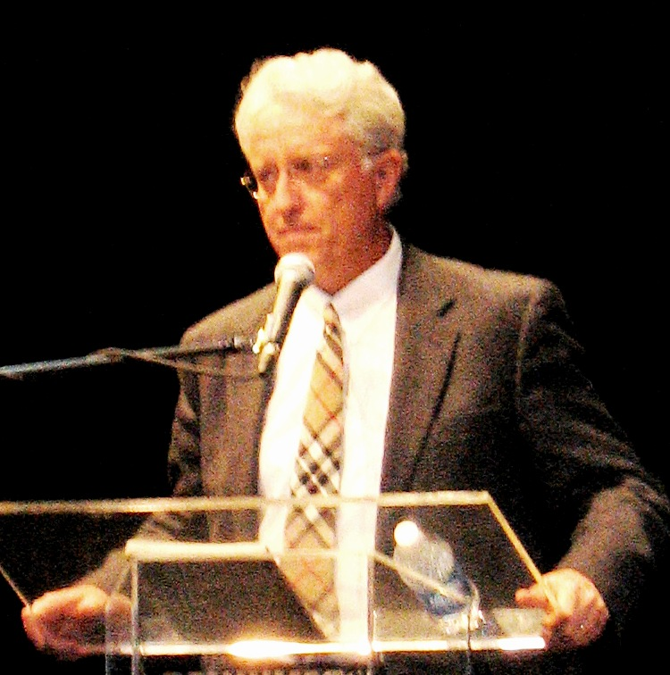 Jack Thompson (attorney) speaking at a debate at California University of Pennsylvania